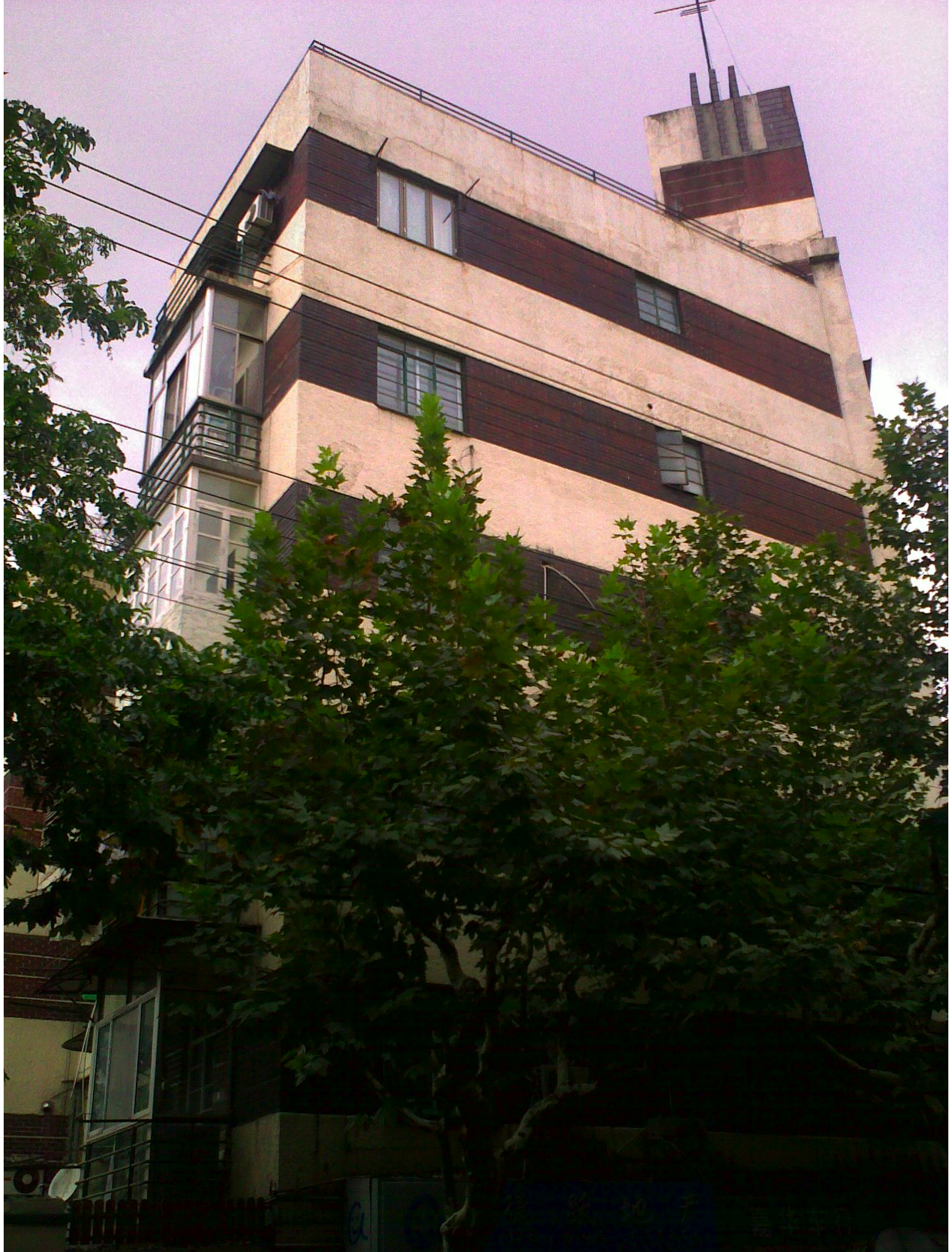 Ürümqi Road No. 176